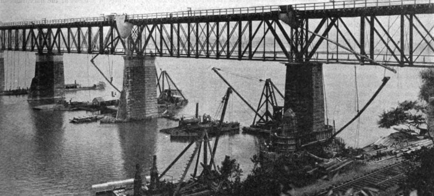 Orginal Descripion: The Old Structure. Showing Work of Encasing the Old Piers and the Building of Intermediate Piers.